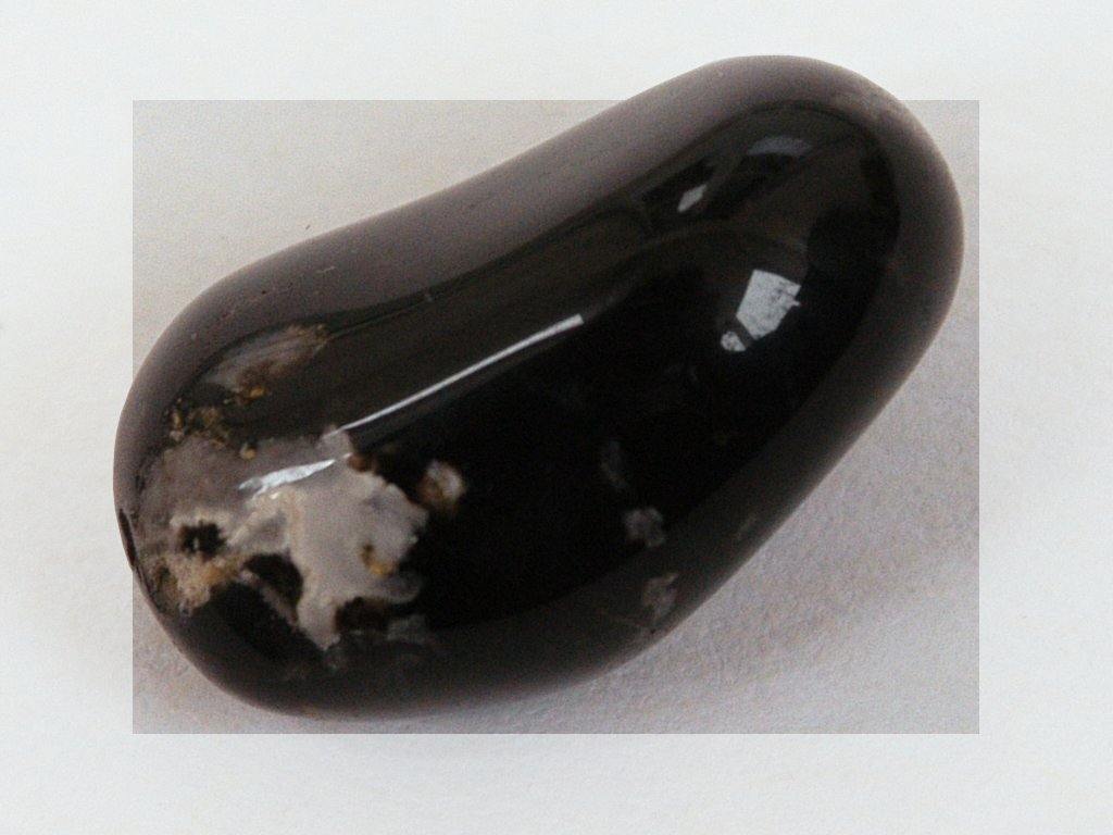 Onyx